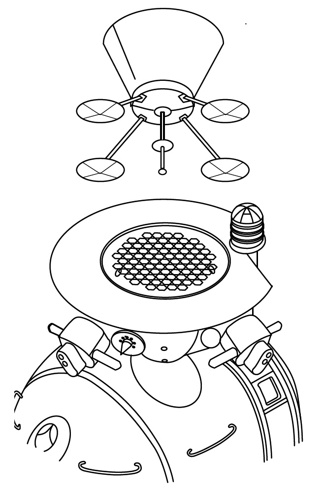 Template:Figure 1-15. Kontakt docking system. Never used in space, the system was designed for the Soviet lunar program. The Aktiv unit (top) was located at the front of the L2, while the passive unit was located on top of the L3 lander.